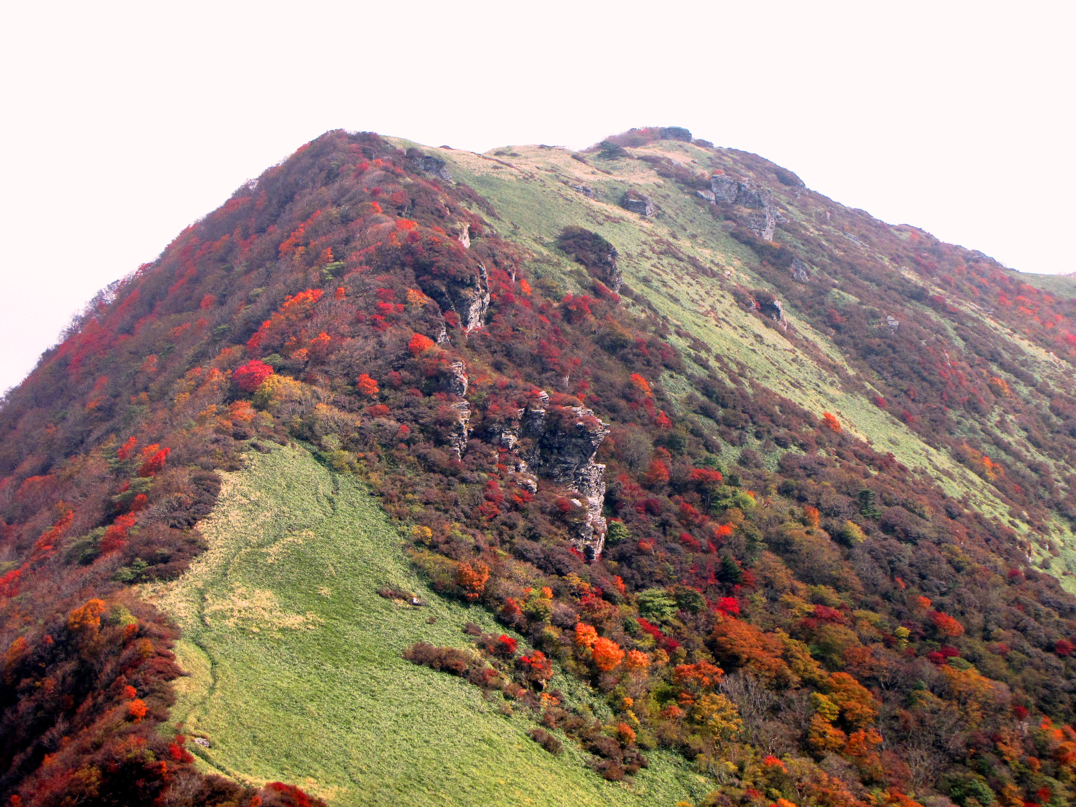 A view of the summit of Mount Chichi (Chichi-yama) as seen from the west in the border between Ehime and Kochi prefectures, Shikoku, Japan.